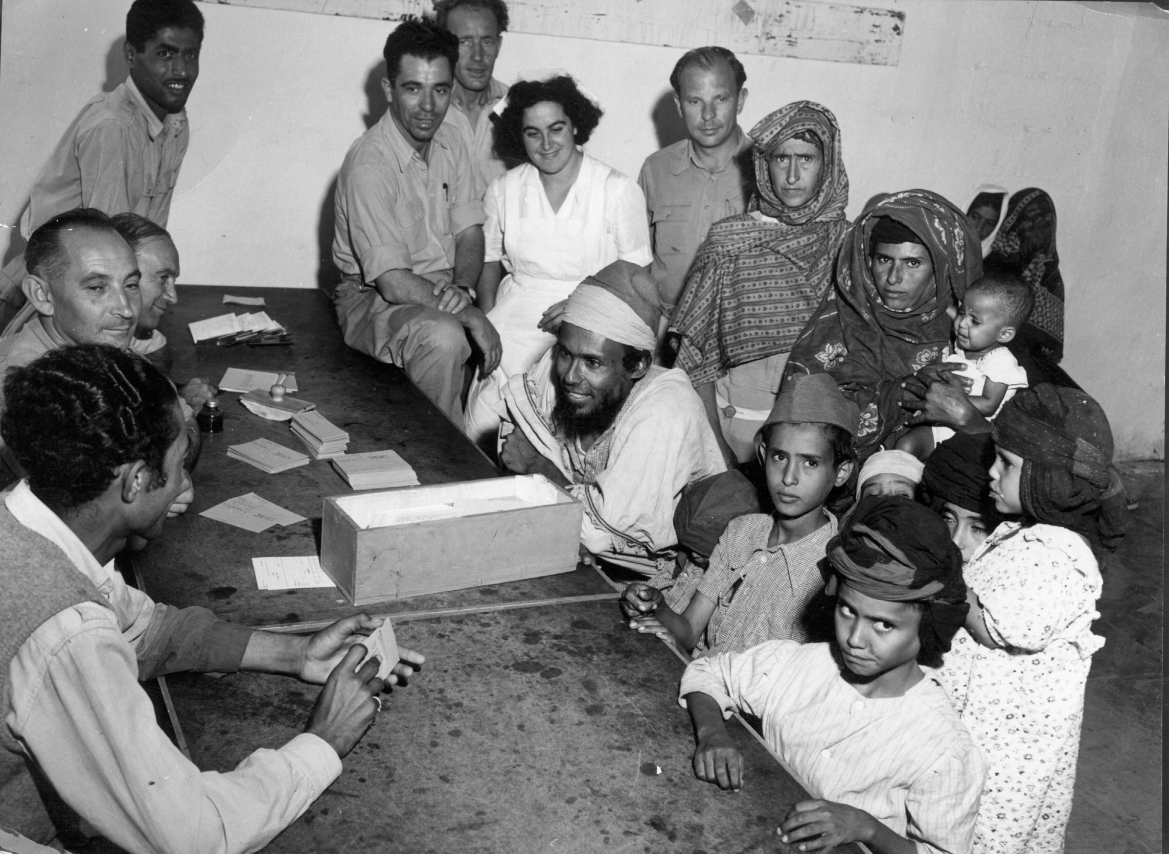 A family of immigrants Mtimnnrshmim immigration office